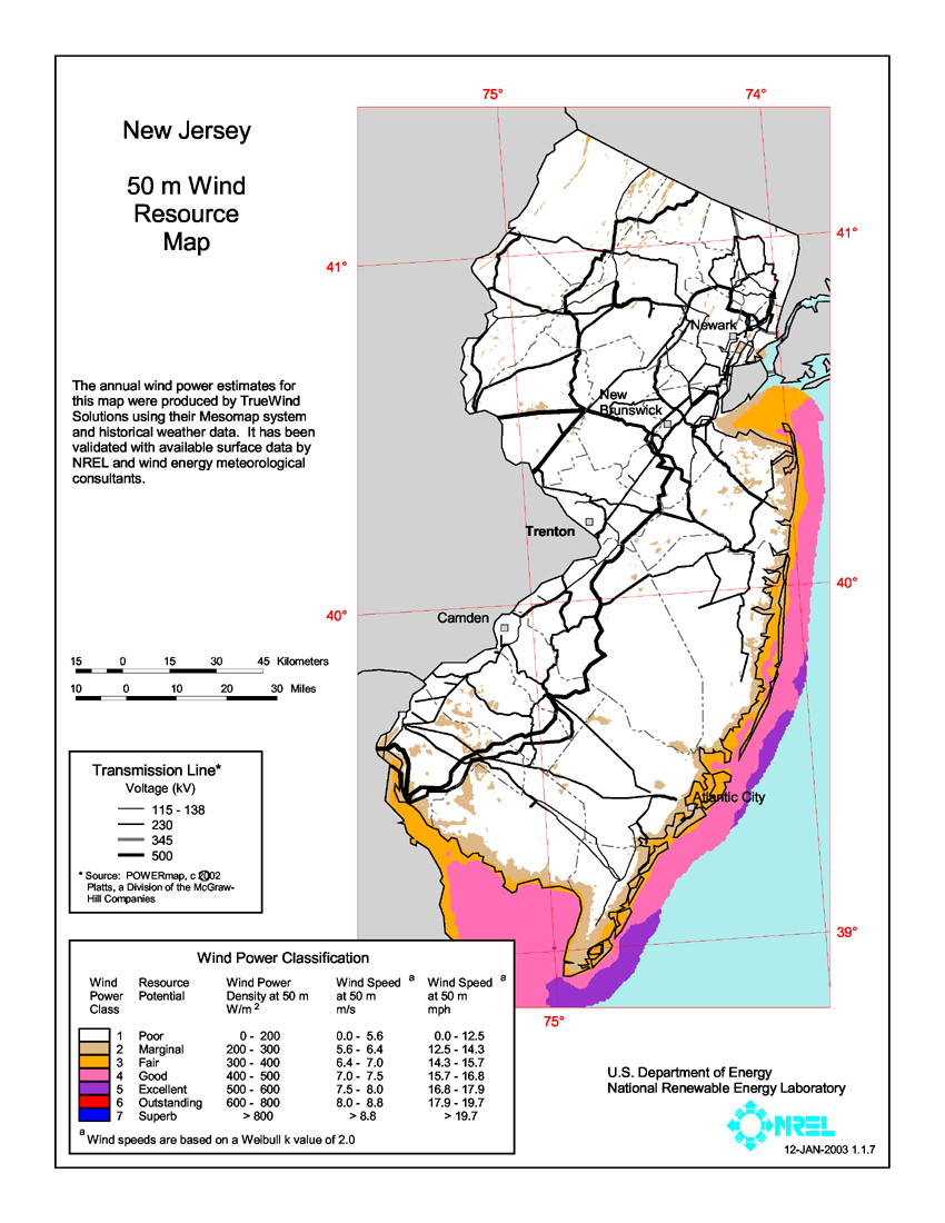 Average annual wind power distribution for New Jersey, 50m height above ground, also showing location of existing electrical transmission lines